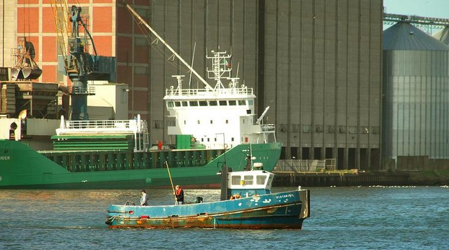 Afternoon at Belfast harbour (3). See 936458. The crew of the harbour launch "Victoria" attend to some "housekeeping" - removing floating debris using a traditional boathook. Continue to 936597.